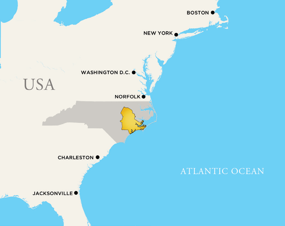 Eastern North Carolina